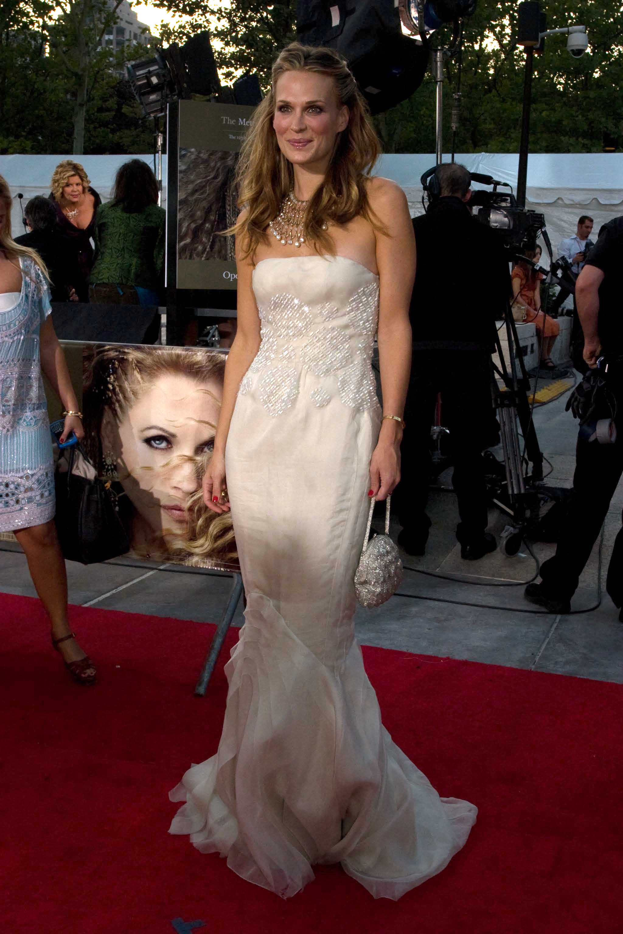 Molly Sims at the Metropolitan Opera opening in 2008. © Rubenstein, photographer Martyna Borkowski